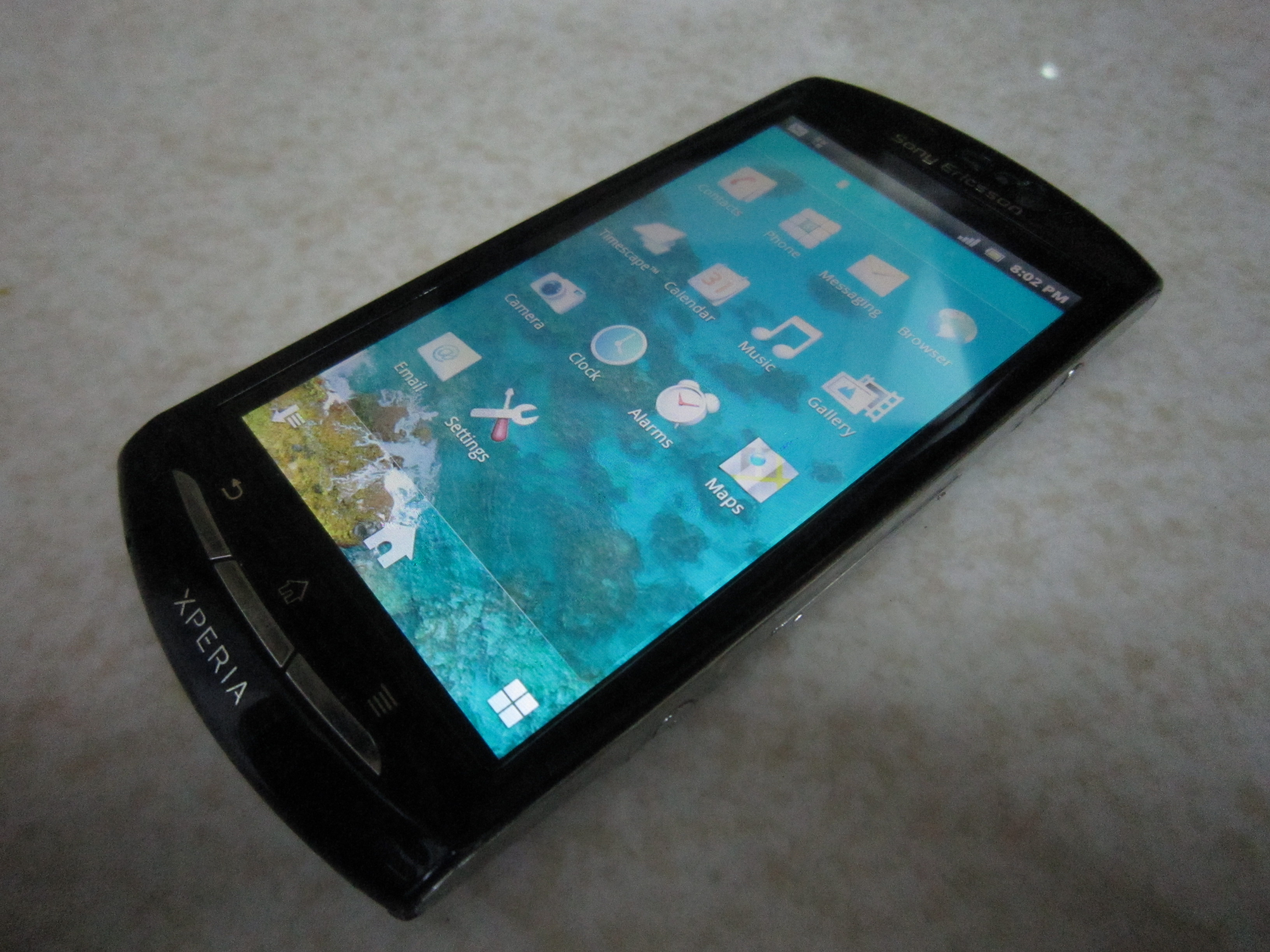 A photo of Sony Ericsson Xperia neo